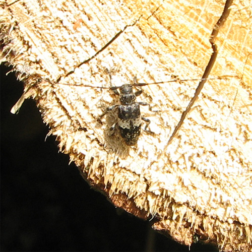 Leiopus nebulosus